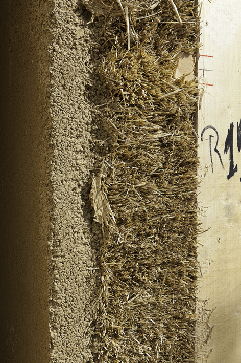 Section in a wall of a straw bale prefabricated house.